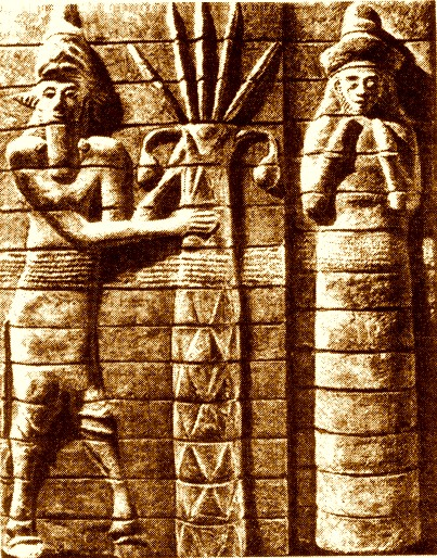 Bull-man protecting a palmtree, female(?) deity (partially destroyed, reconstructed), panel of molded bricks. Terracotta, middle 12th century BC. Found at the Tell of the Apadana in Susa. The inscription running along the central band record that Shilhak-Inshushinak made a statue of brick for the exterior chapel of Inshushinak.